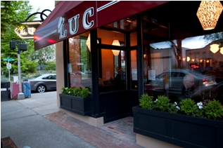 exterior photo of Luc Restaurant